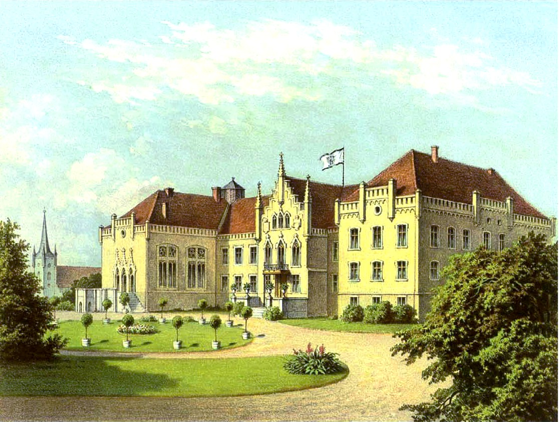 Former manor in Łęgowo, Poland